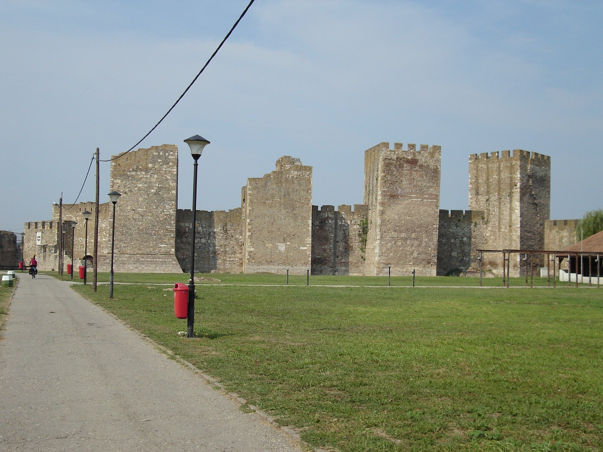 Smederevo in Serbia, inside the fort